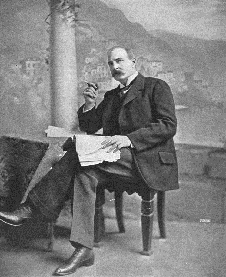 Francis Marion Crawford.